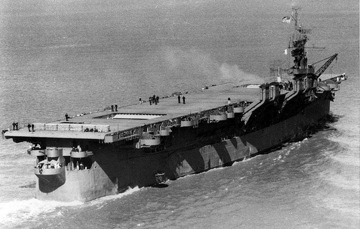 The U.S. Navy light aircraft carrier USS Princeton (CV-23) underway in the Delaware River, off the Philadelphia Navy Yard, Pennsylvania (USA), on 28 March 1943. Princeton was redesignated CVL-23 on 15 July 1943.